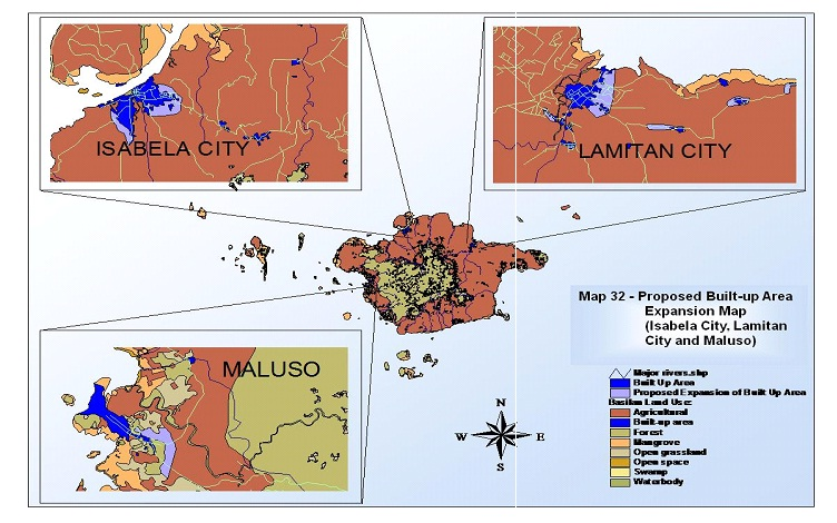 Basilan Population Centers of Isabela City, Lamitan City and Maluso